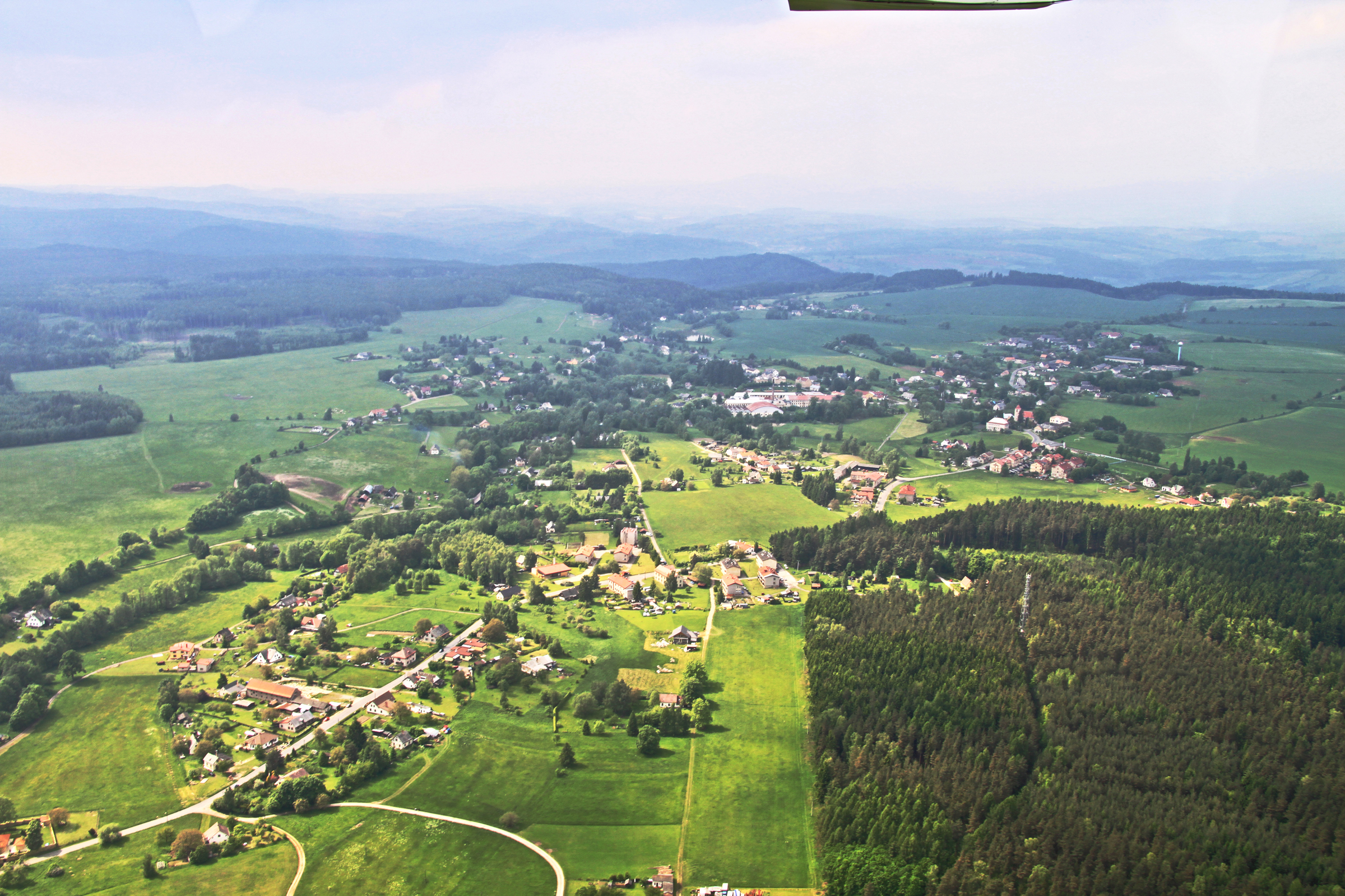 Village Kocléřov near of town Dvůr Králové nad Labem from air, eastern Bohemia, Czech Republic